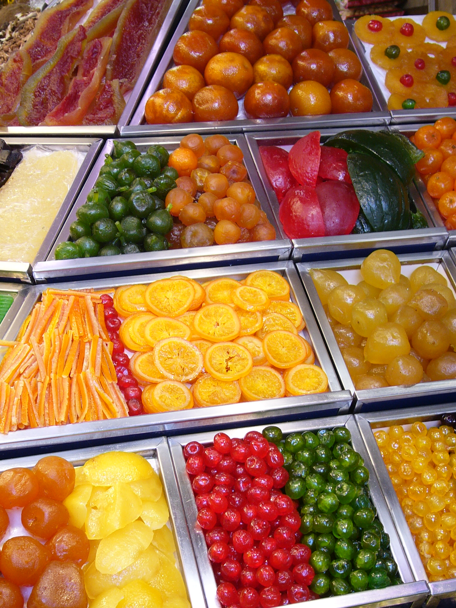 Candied fruit at "La Boquería" market in Barcelona.